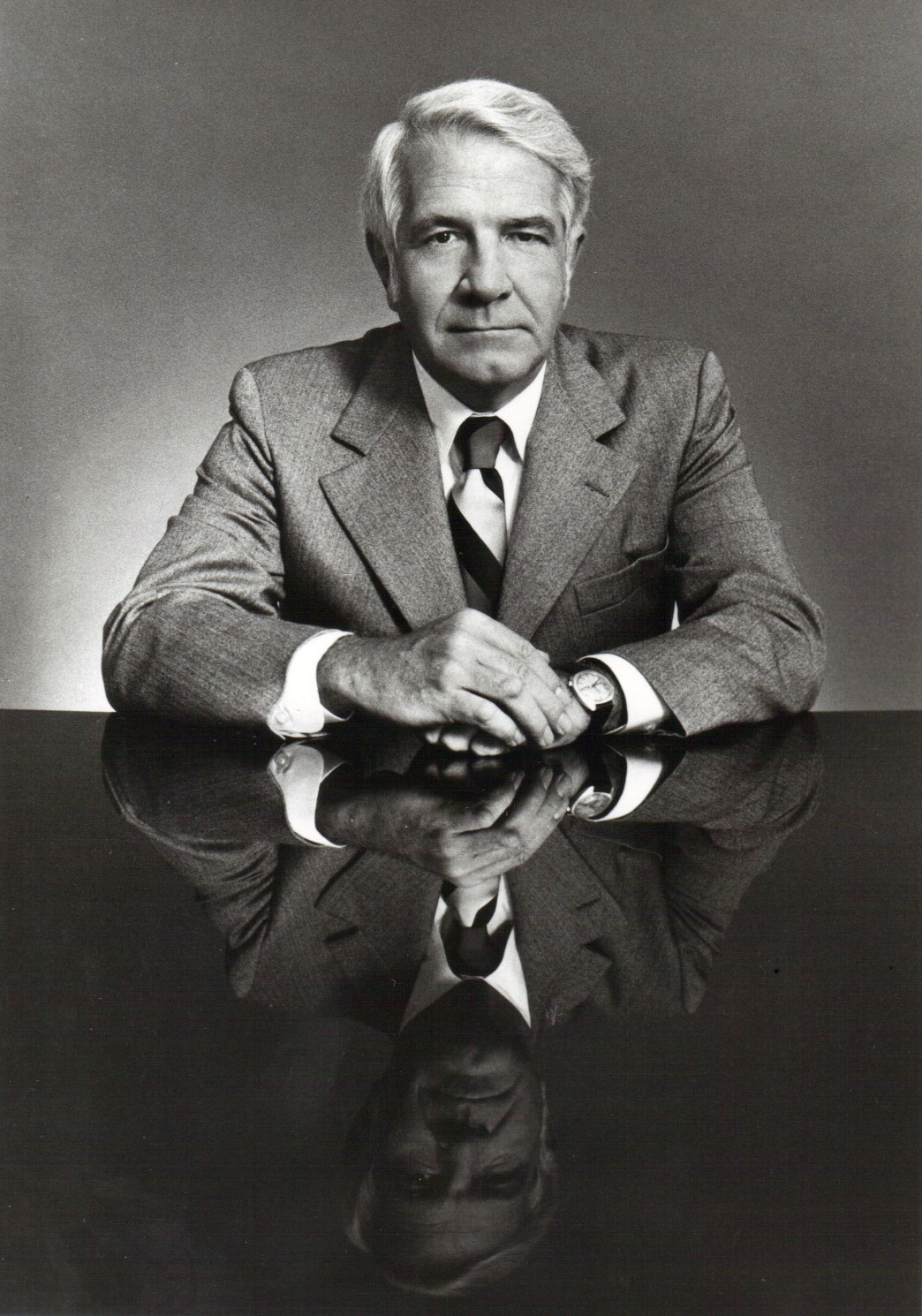 ABC News Correspondent Harry Reasoner in a Publicity Photo